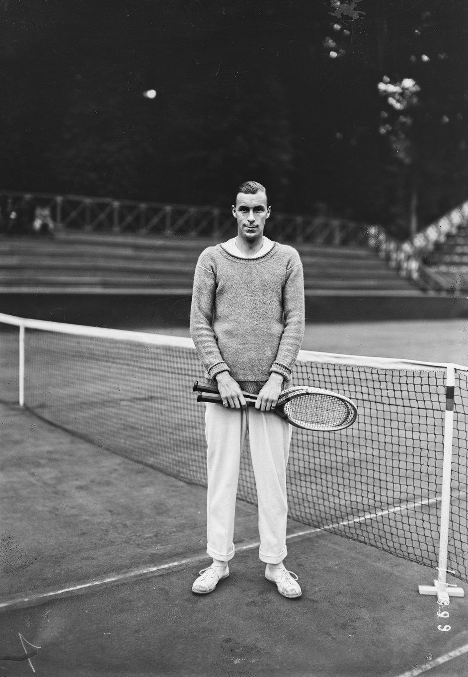 American tennis player Bill Tilden at the 1921 World Hard Court Championships in St. Cloud, Paris.